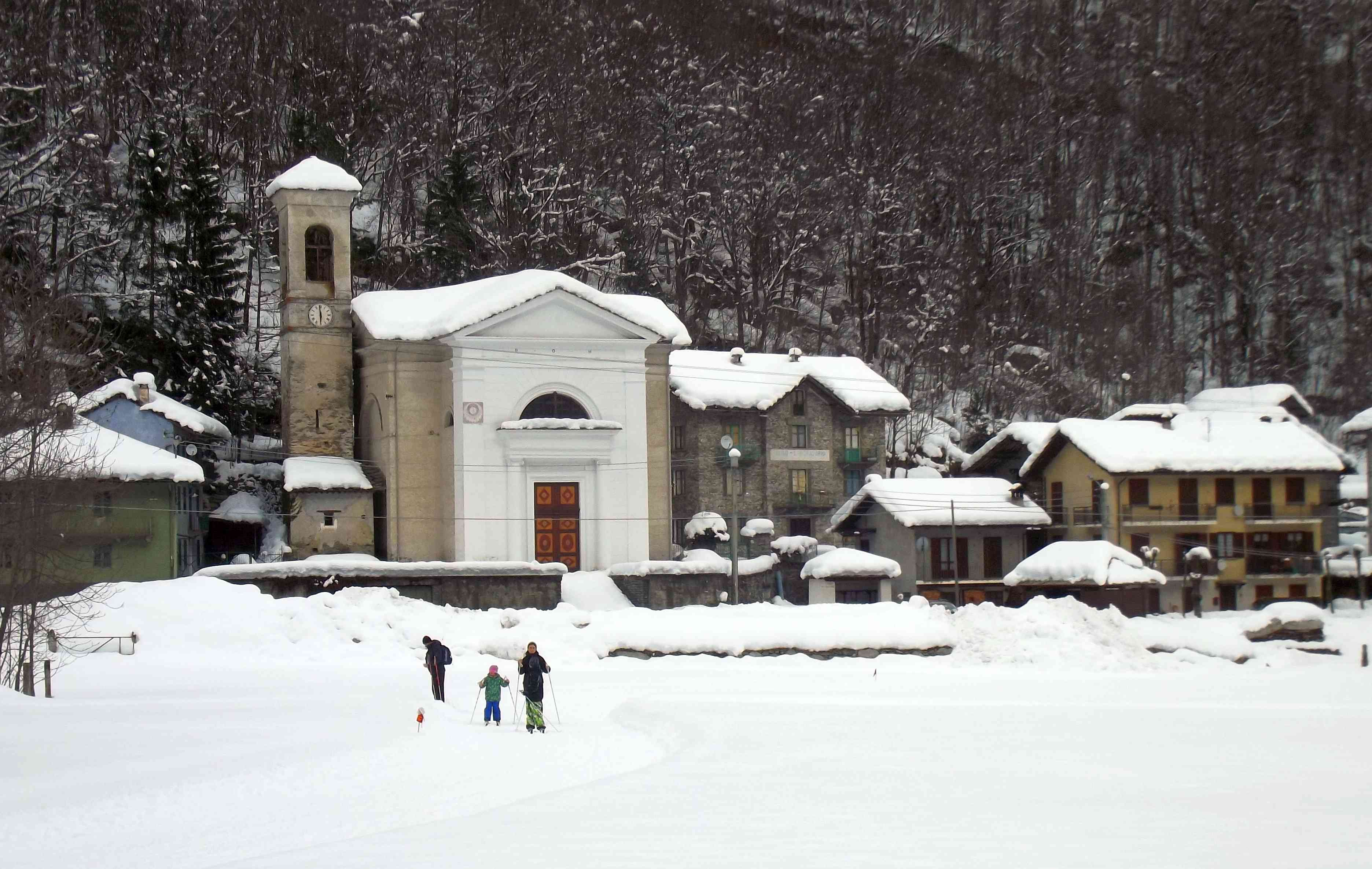 Groscavallo (TO, Italy)